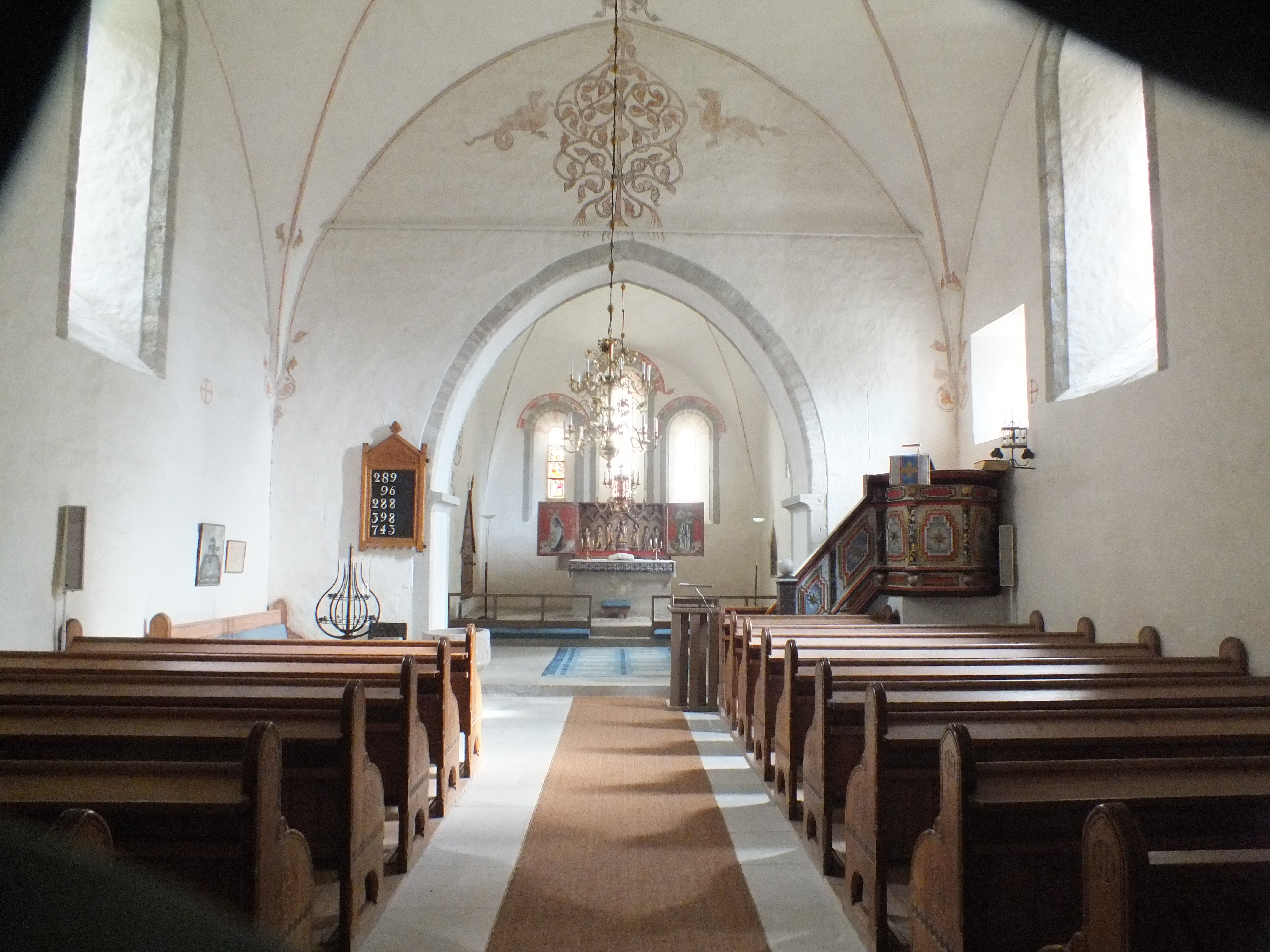 Silte Church Gotland